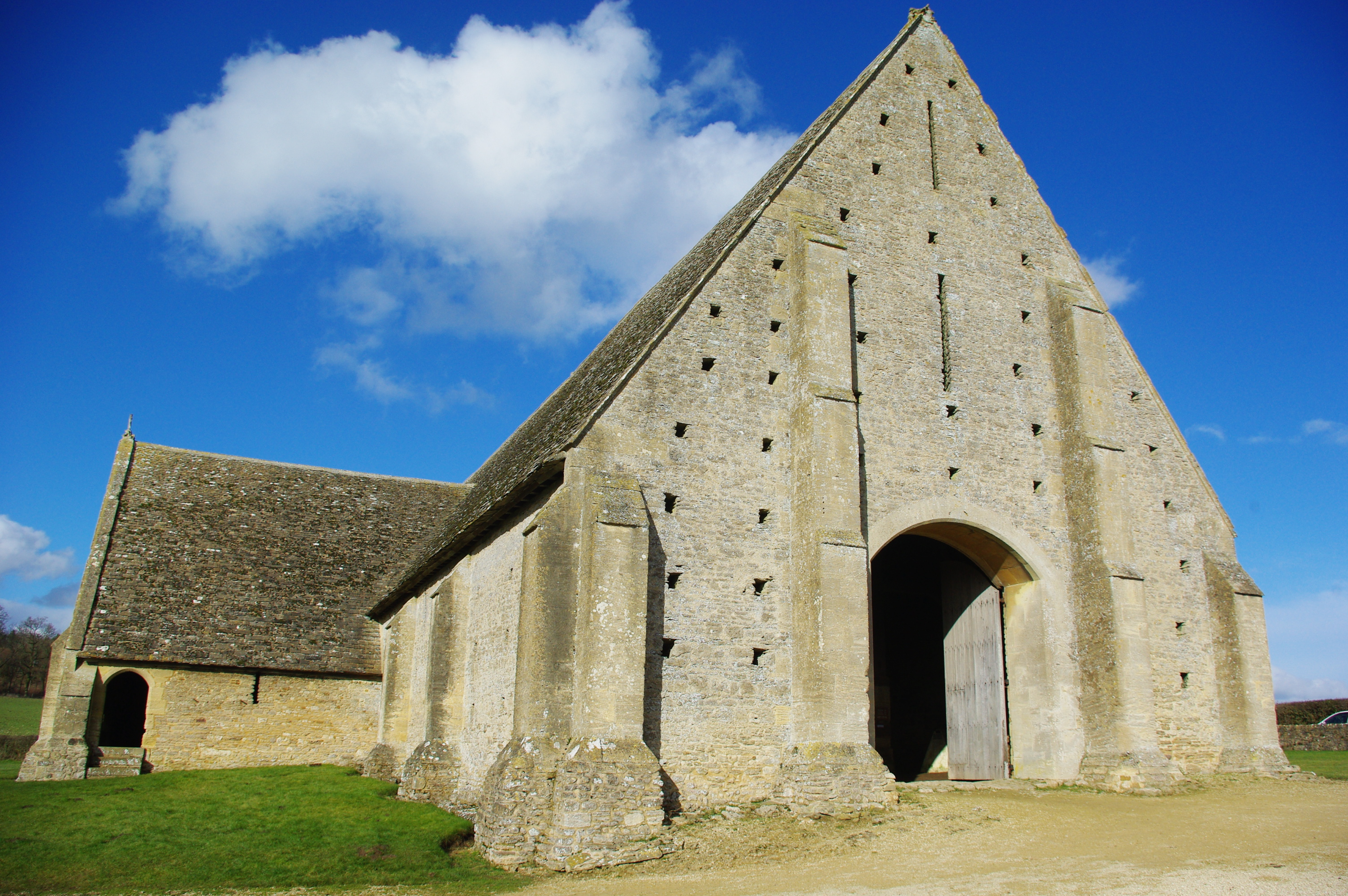 Medieval barn at Great Coxwell, Oxfordshire (formerly Berkshire), seen from the south